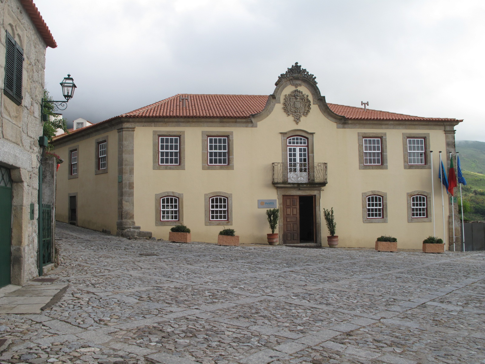 This file was uploaded for Wiki Loves Monuments in Portugal with the unique identifier 97001386.